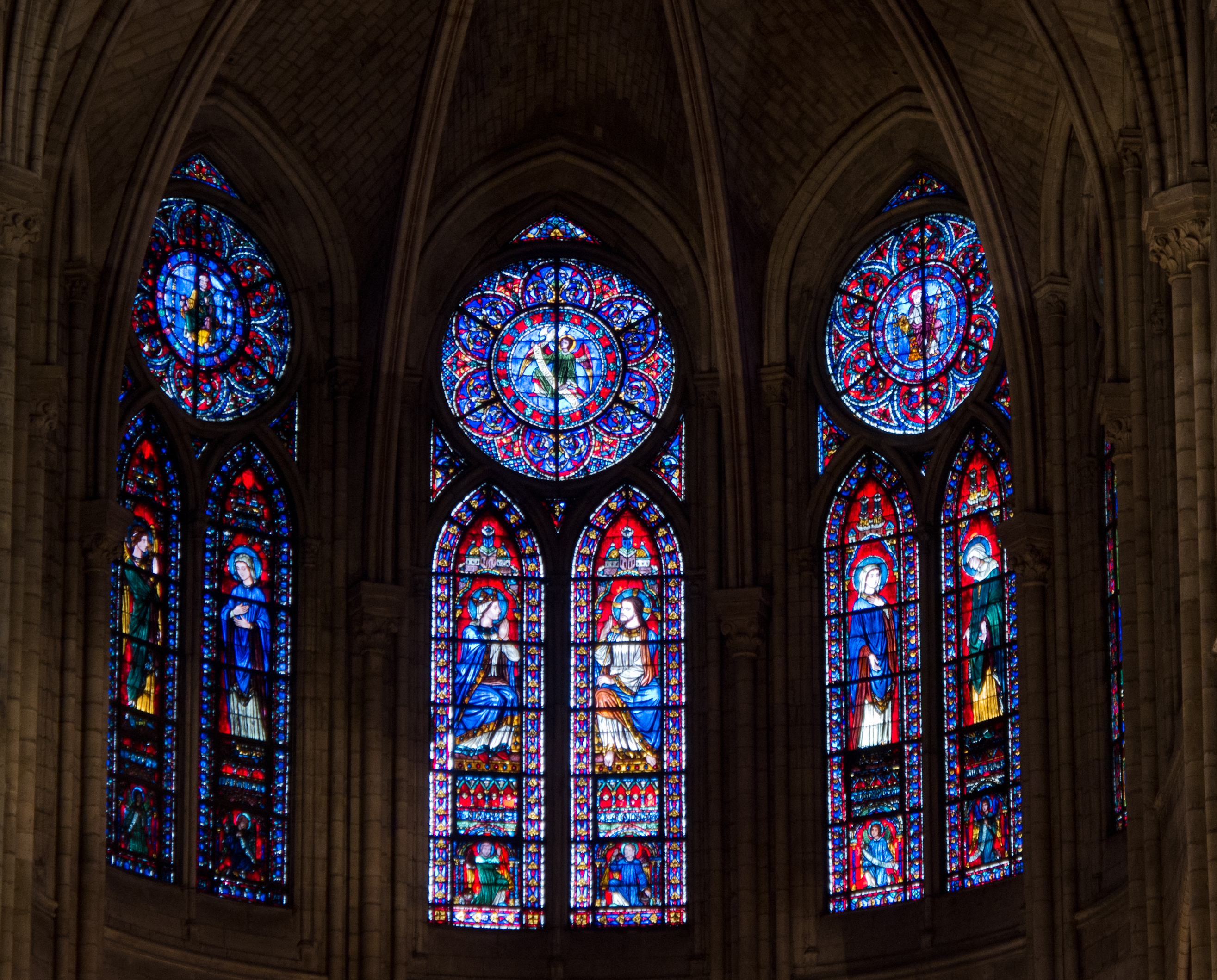 Stain glass windows in the Cathedral of Notre Dame of Paris, France.